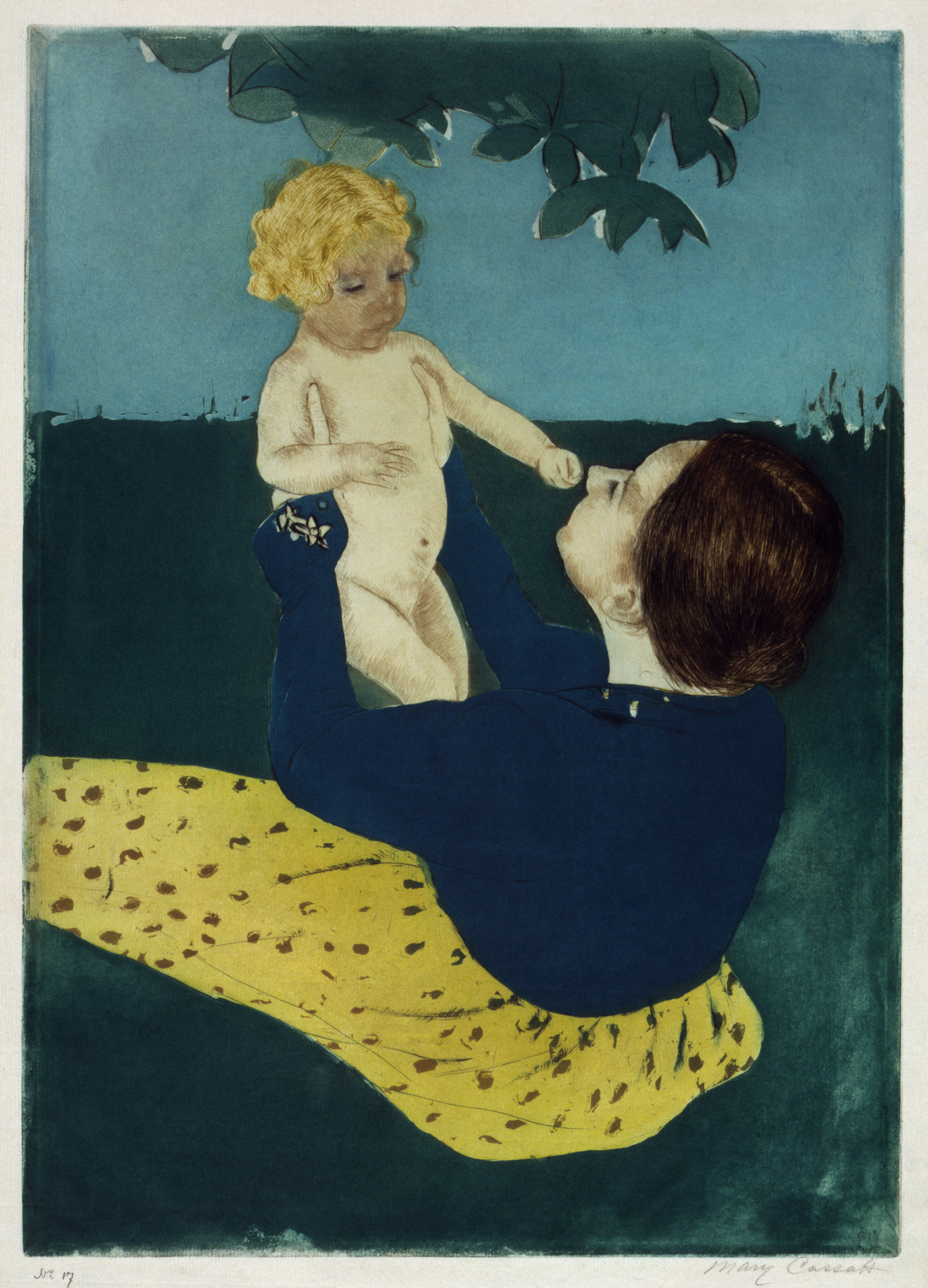 "Under the horse chestnut tree", 1 print : drypoint and aquatint, color